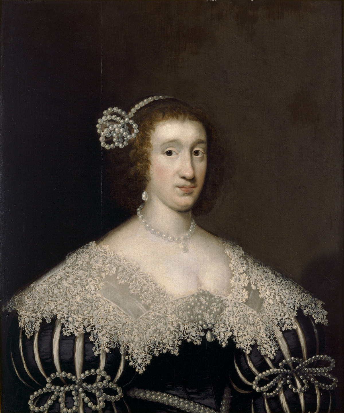 Portrait of Gertrude Howard